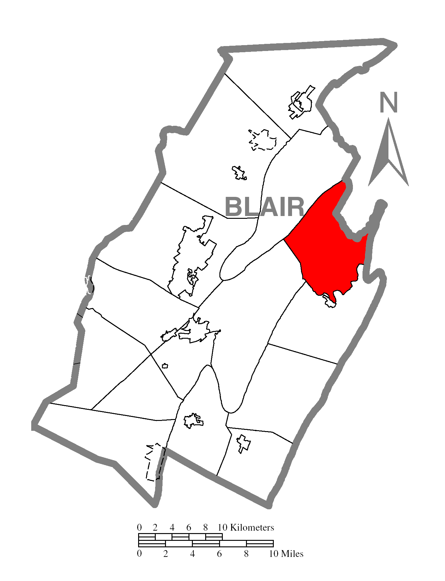 A map of Blair County showing Catharine Township, Pennsylvania (alternate) highlighted on the map.